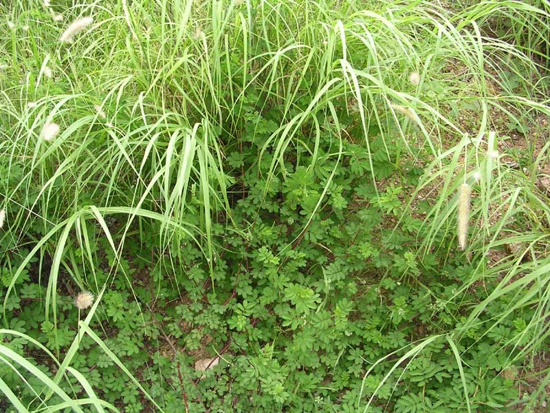 Desmanthus virgatus growing with buffel grass